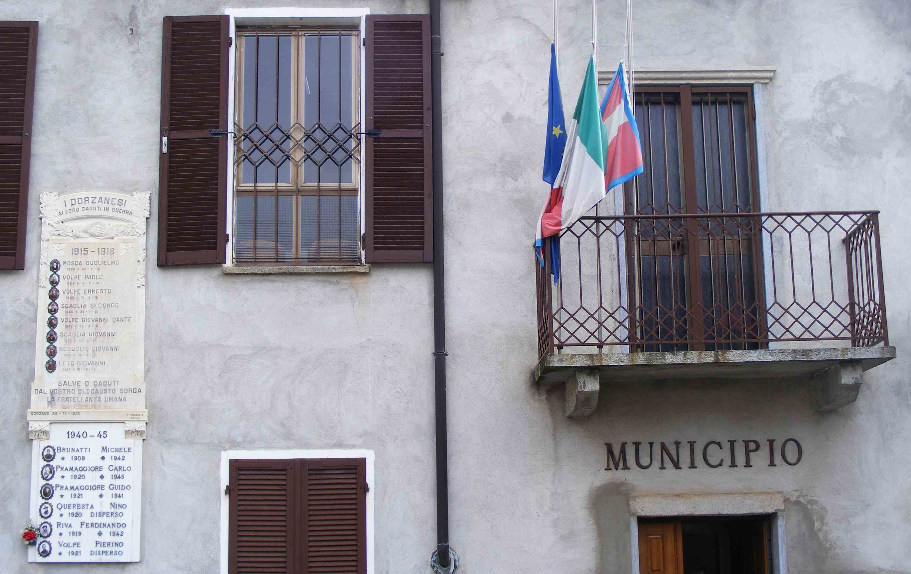 Dorzano (BI, Italy): town hall